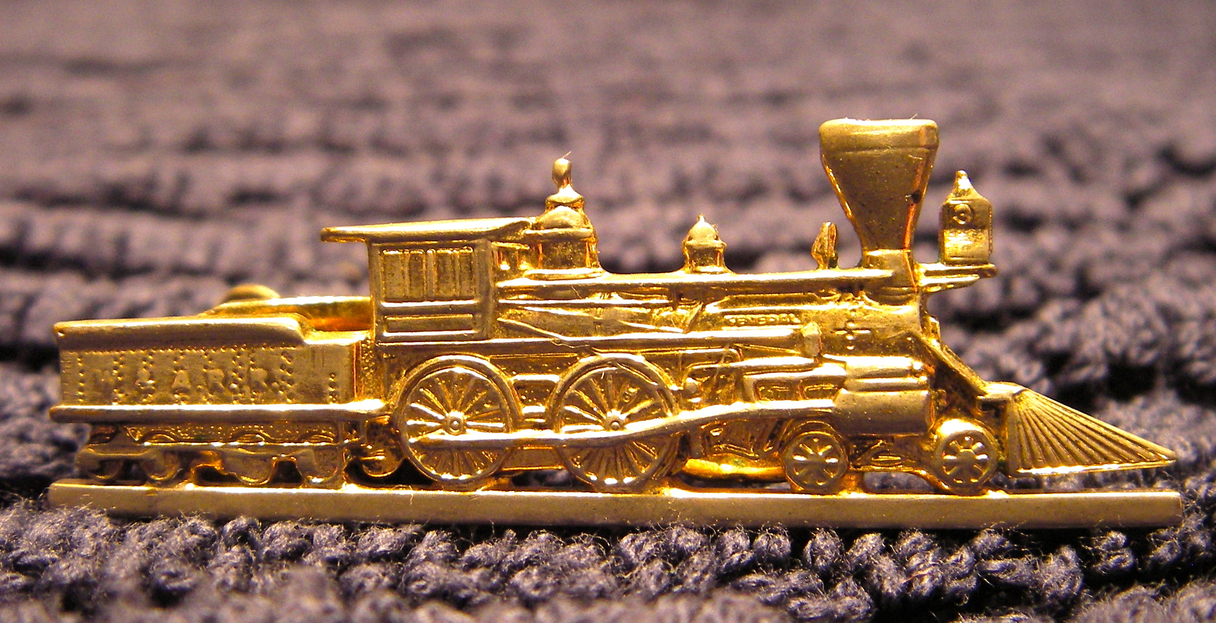 Commemorative tie clasp produced by the Louisville & Nashville Railroad for the 1964 tour of The General, as part of the 100th anniversary of the Civil War.